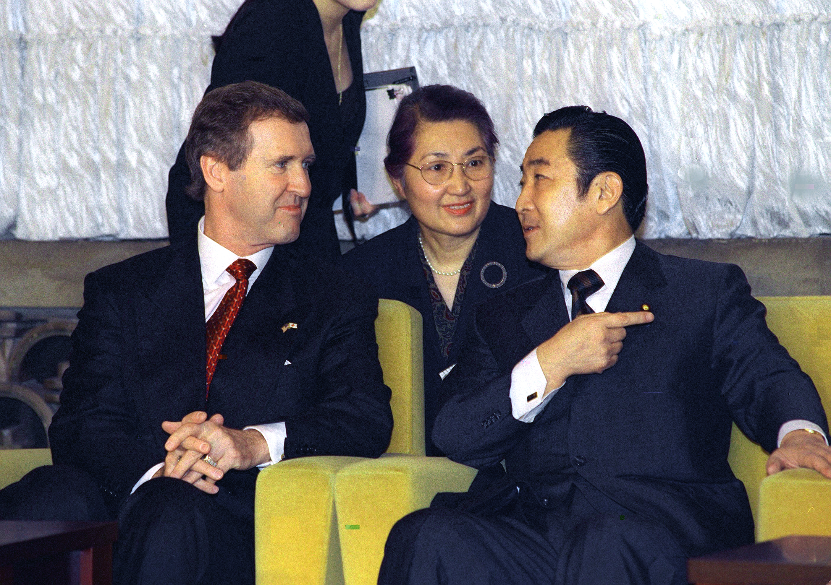 Japanese Prime Minister Ryutaro Hashimoto and US Secretary of Defense William Cohen talk through an interpreter at the Kantei, Tokyo, Japan.